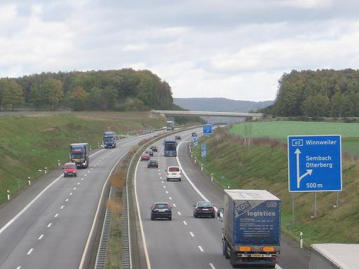 A 63 drirection Mainz at Sembach exit